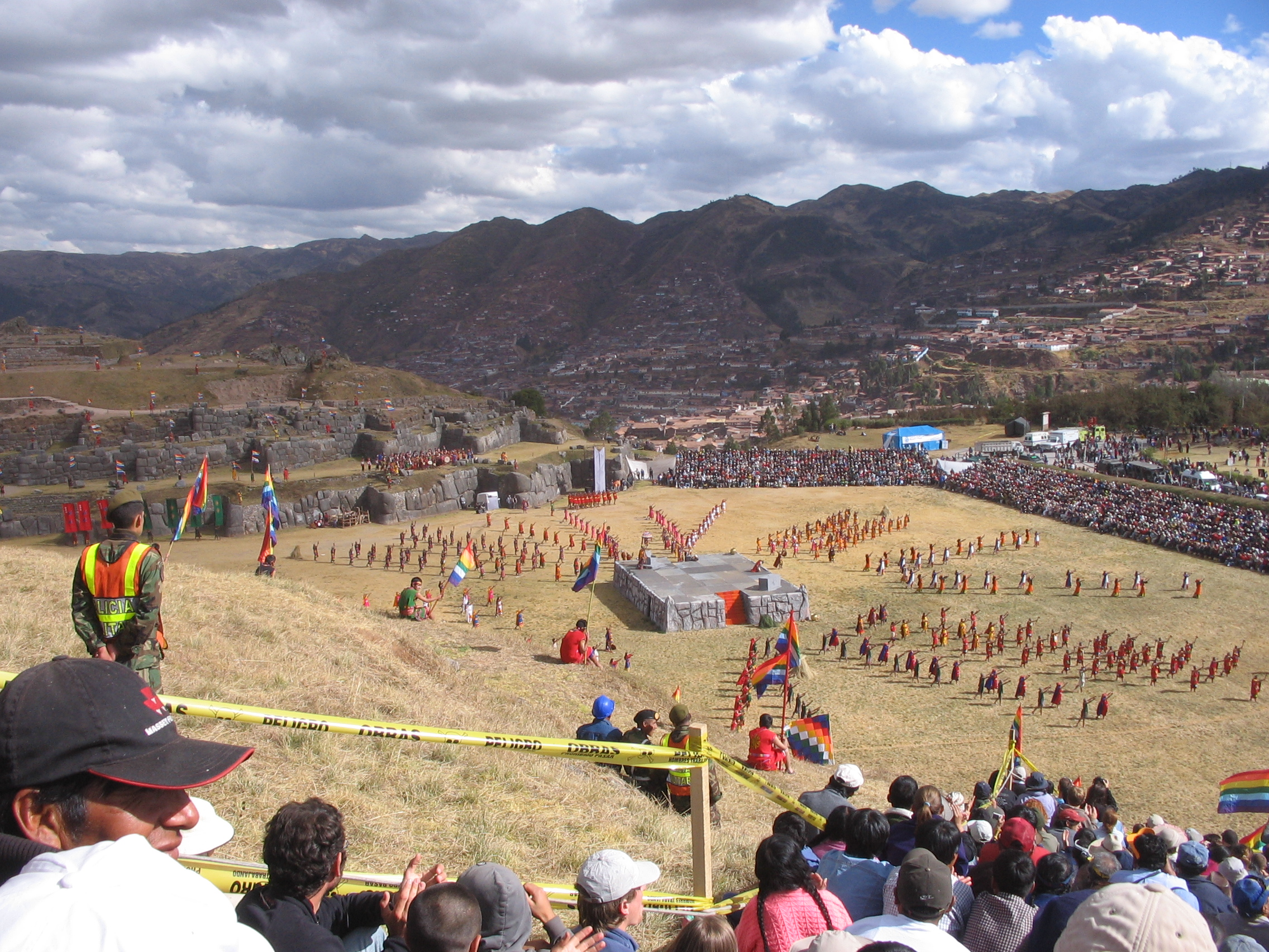 The Inti Raymi (Festival of the Sun) at the Sacsayhuamán inca fortress in Cuzco, Peru, on 2007, june 24th